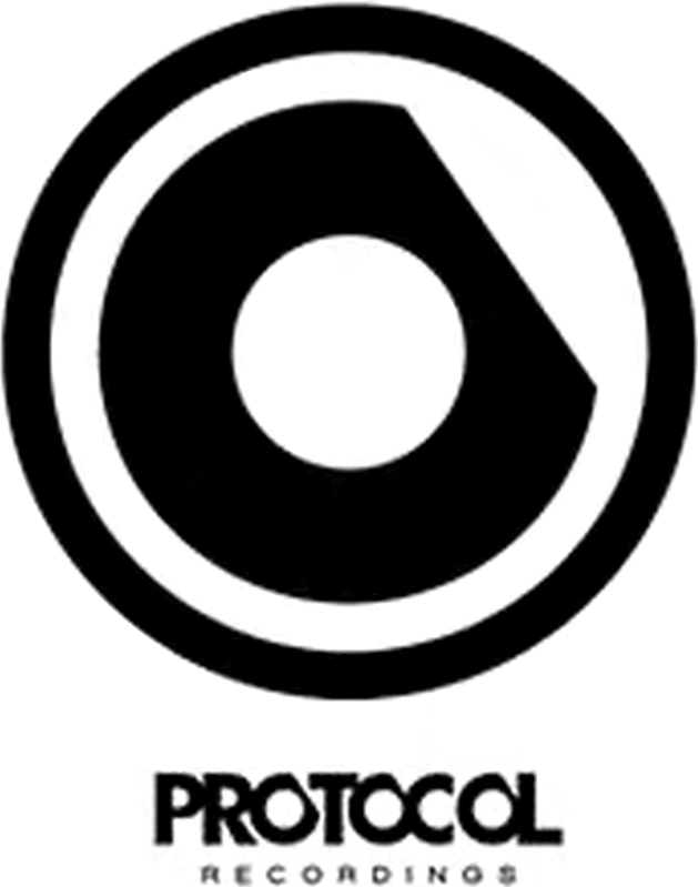 Logo of Protocol Recordings